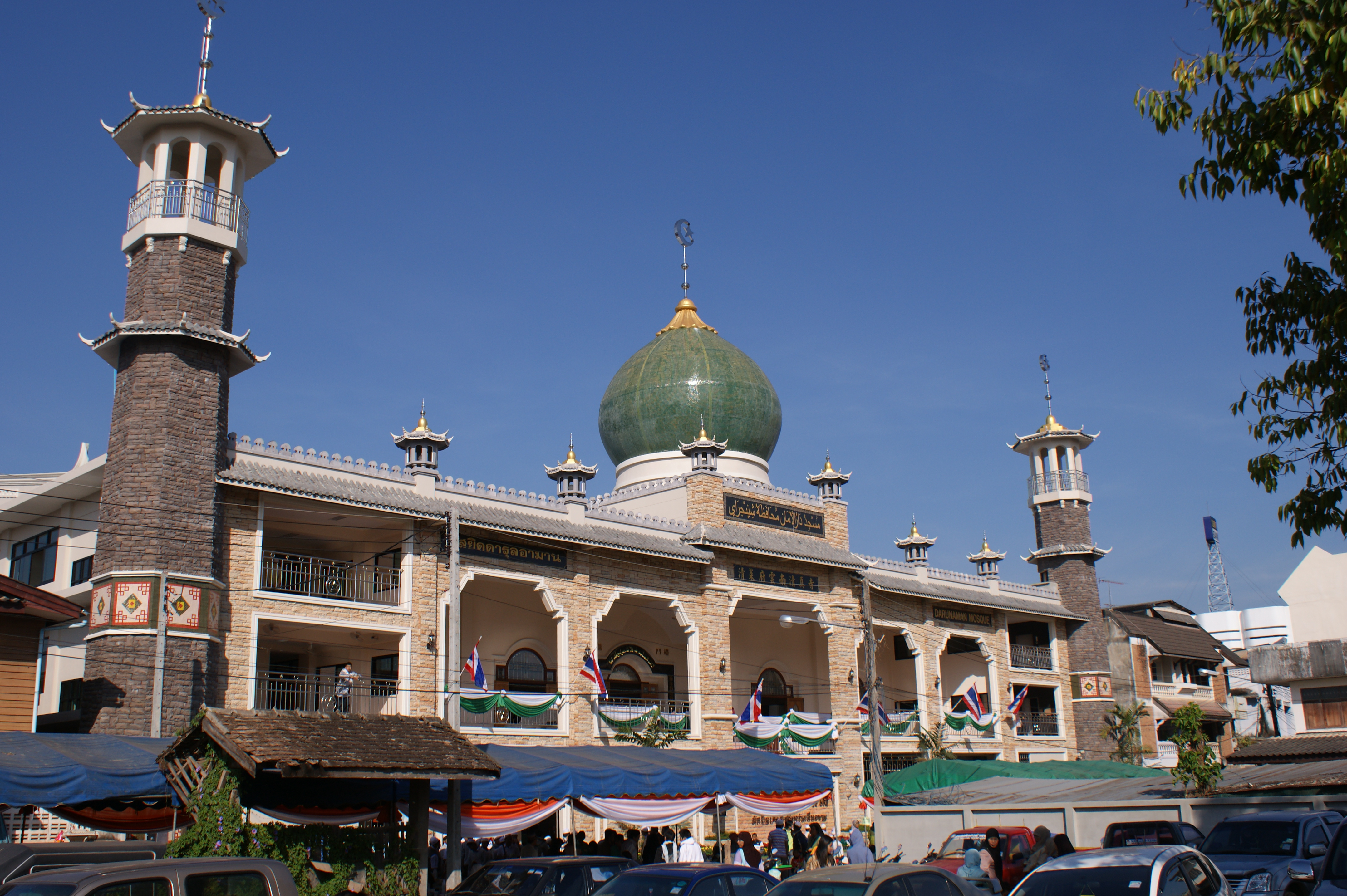 Duranaman Mosque located in Chiang Rai, is the biggest mosques in the province.